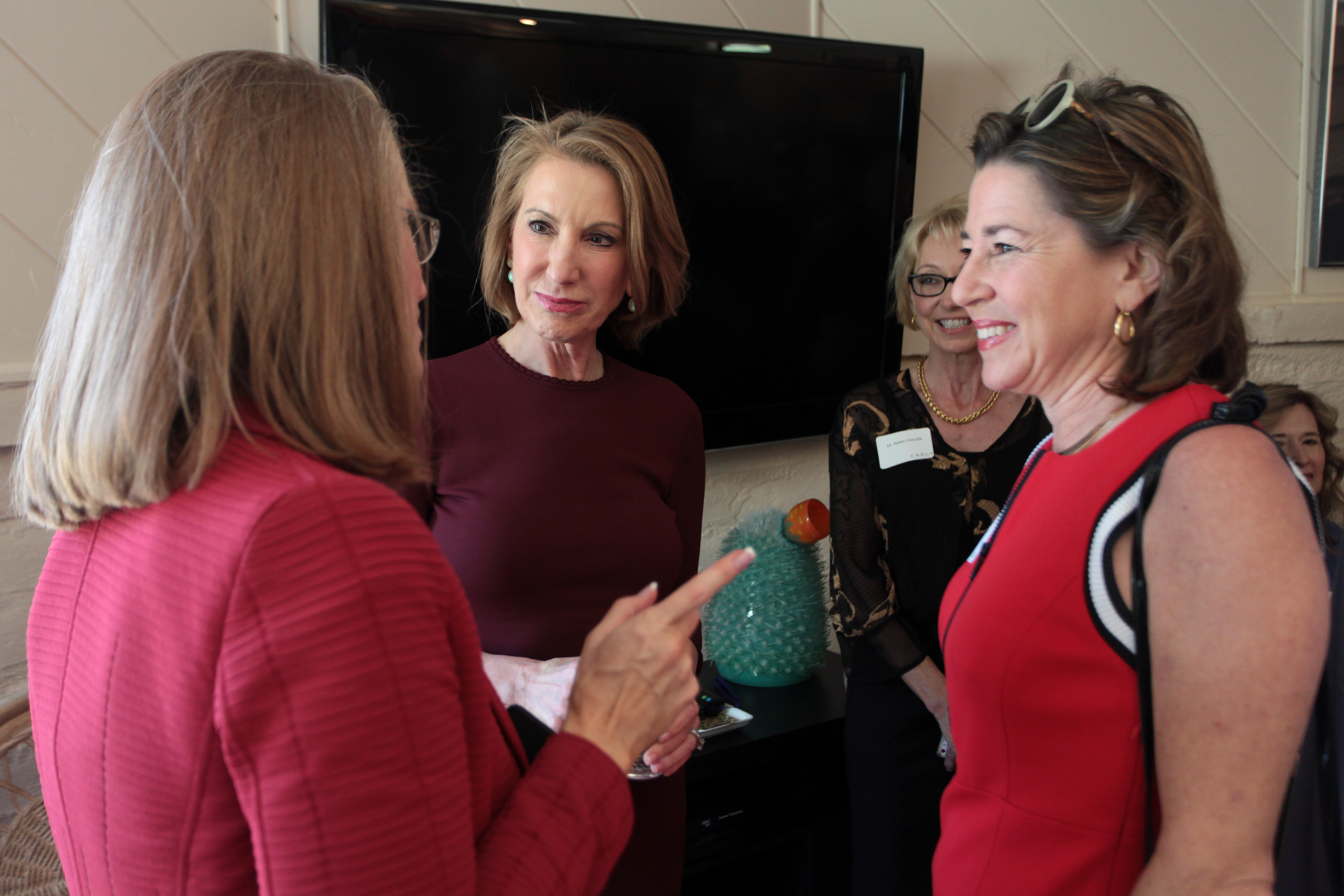 Carly Fiorina speaking with supporters at a coffee reception and fundraising event in Paradise Valley, Arizona.